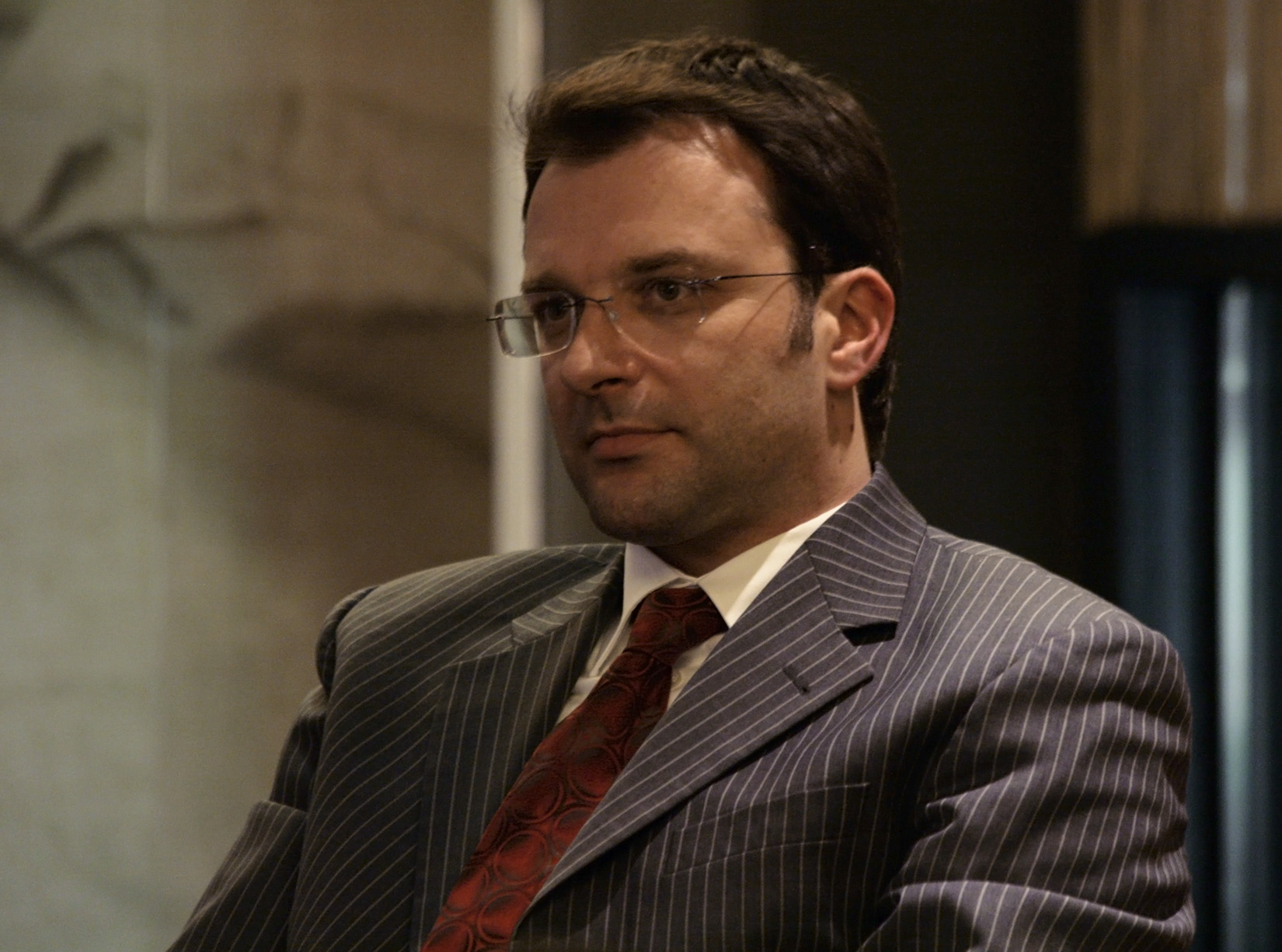 Austrian politician Fritz Kaltenegger (ÖVP) during a panel discussion